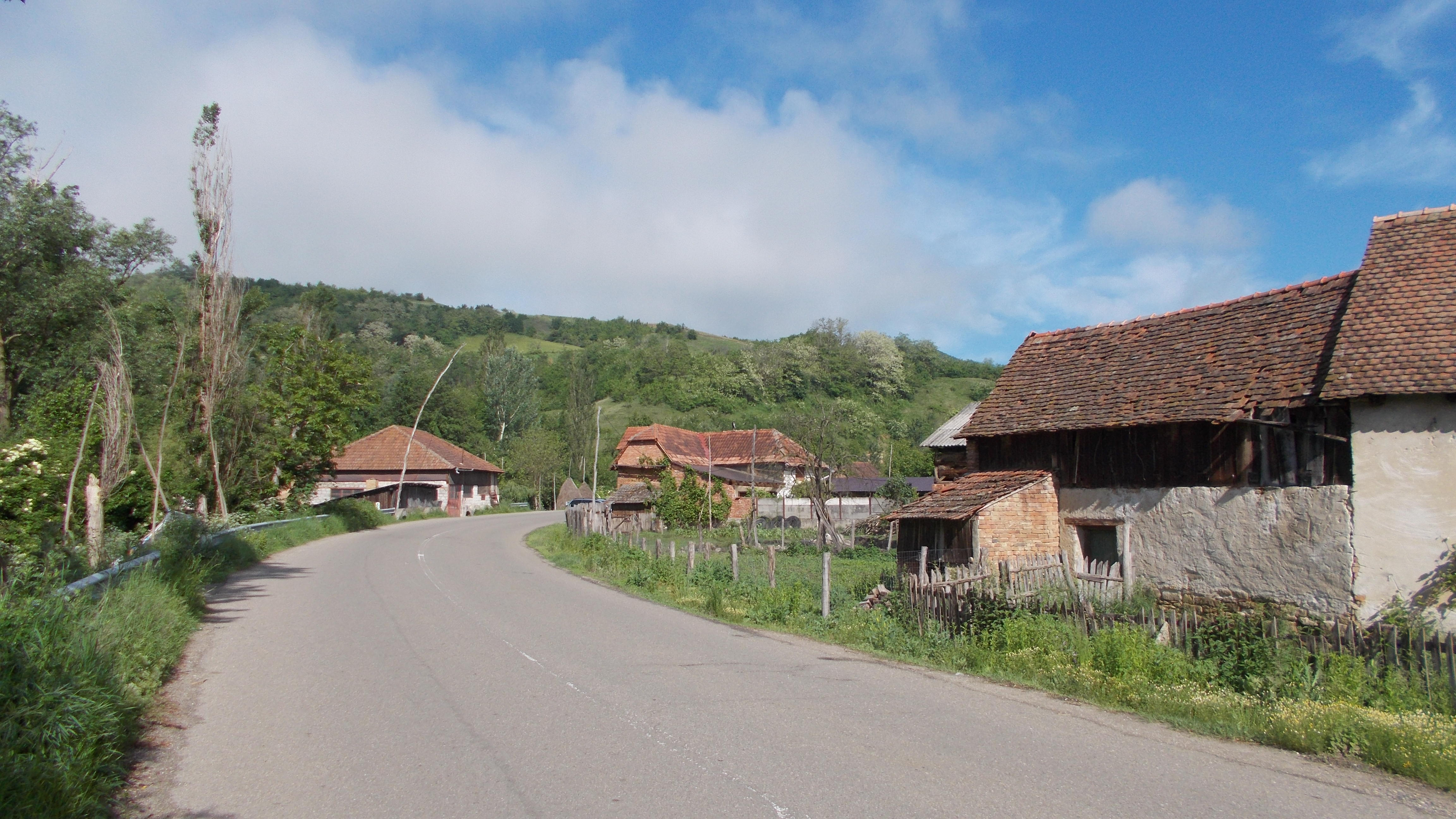 Lăpușnicel, Caraș-Severin County, Romania